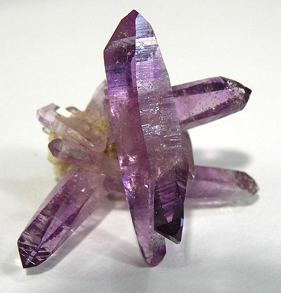 Quartz (Var.: Amethyst) Locality: Municipio Las Vigas de Ramírez (Municipio de Profesor Rafael Ramírez), Veracruz, Mexico (Locality at ) Size: 3.3 x 2.9 x 2.9 cm. This is a floater cluster of intergrown, doubly-terminated amethyst crystals from Veracruz. Ex. Richard Hauck Collection.